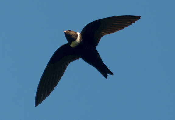 Streptoprocne zonaris, White-collared Swift